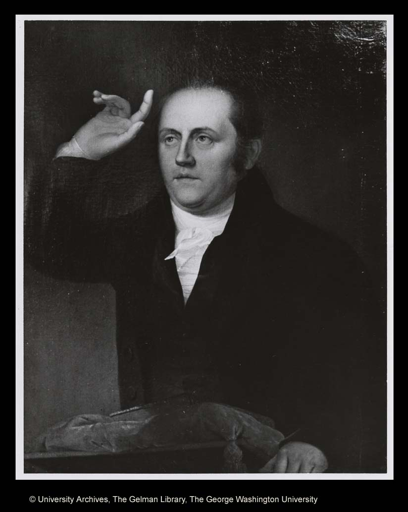 Photograph of James Peale's oil portrait of William Staughton (after restoration). Photograph available in Digital Collections of the Special Collections Research Center ( Since Peale died in 1831, the painting itself is no longer under copyright restrictions. The University Archives that took the photograph has posted it online and open to researchers. Therefore, the photograph should fall under fair use doctrine for research purposes.